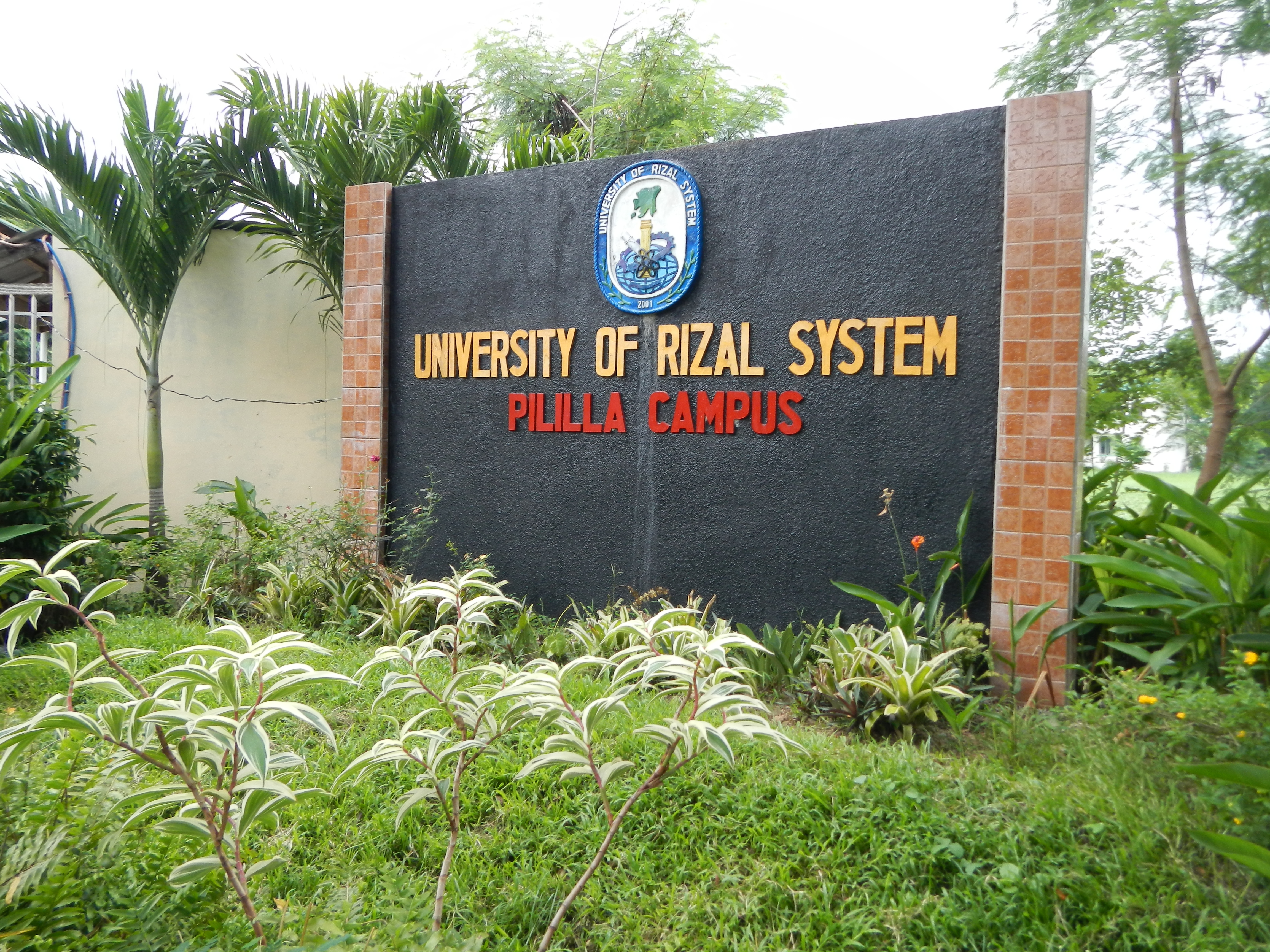 University of Rizal System[1] Website The University of Rizal System (U.R.S. or URS) is a system of colleges located in the Rizal province, Philippines. It operates multiple campuses, with the main campus being in Tanay, Rizal. The university has expanded from its Main campus in Tanay, Rizal to offer programs to students in the campuses: Antipolo, Angono, Binangonan, Cainta, Cardona, Morong, Pililla, Rodriguez, and Taytay. --- Pililla, Rizal [2] is a first class urban municipality in the province of Rizal,[3] Philippines with a population of 59,527 inhabitants in 9,001 households, and known as the Green Field Municipality of Rizal, just few kilometers away from Tanay, Rizal and subdivided into 9 barangays.Election results 2013 [4] Quisao / Land area: 73.90 km² Founded: 1583 Coordinates: 14°26'45"N 121°19'48"E Profile Pililla benefits from RE investment windfalls New wind farm in Rizal A visit to Sitio Bugarin, Pililla, Rizal Alternergy sets aside $380 million for two Rizal wind projects Alternergy Wind One Corporation will be investing $380 million for two wind power projects of 67-megawatt capacity each in Rizal province; the planned Mount Sembrano wind power facility will come next.